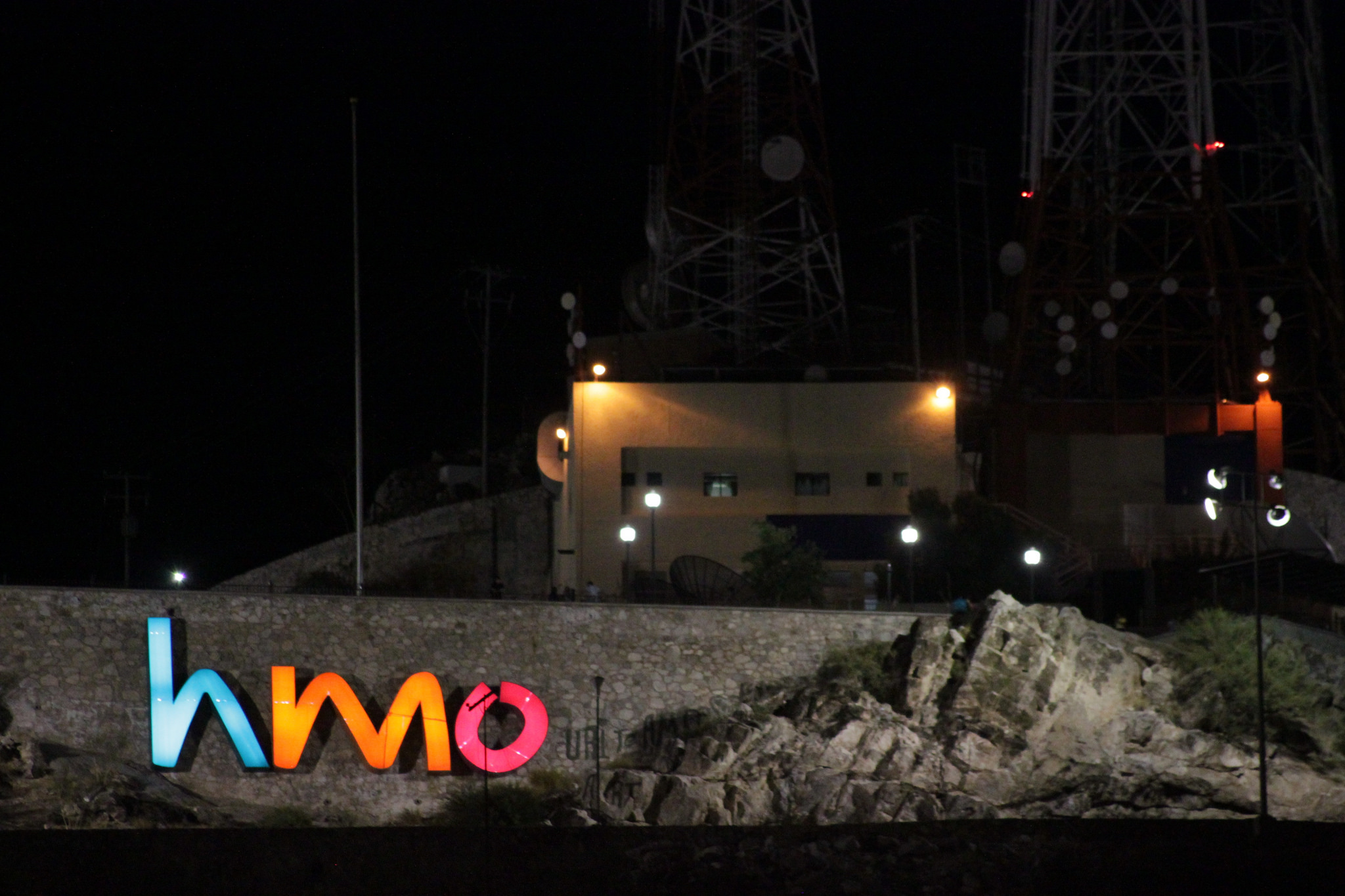 Cerro de la Campana in Hermosillo, seen from civic auditory of the state.